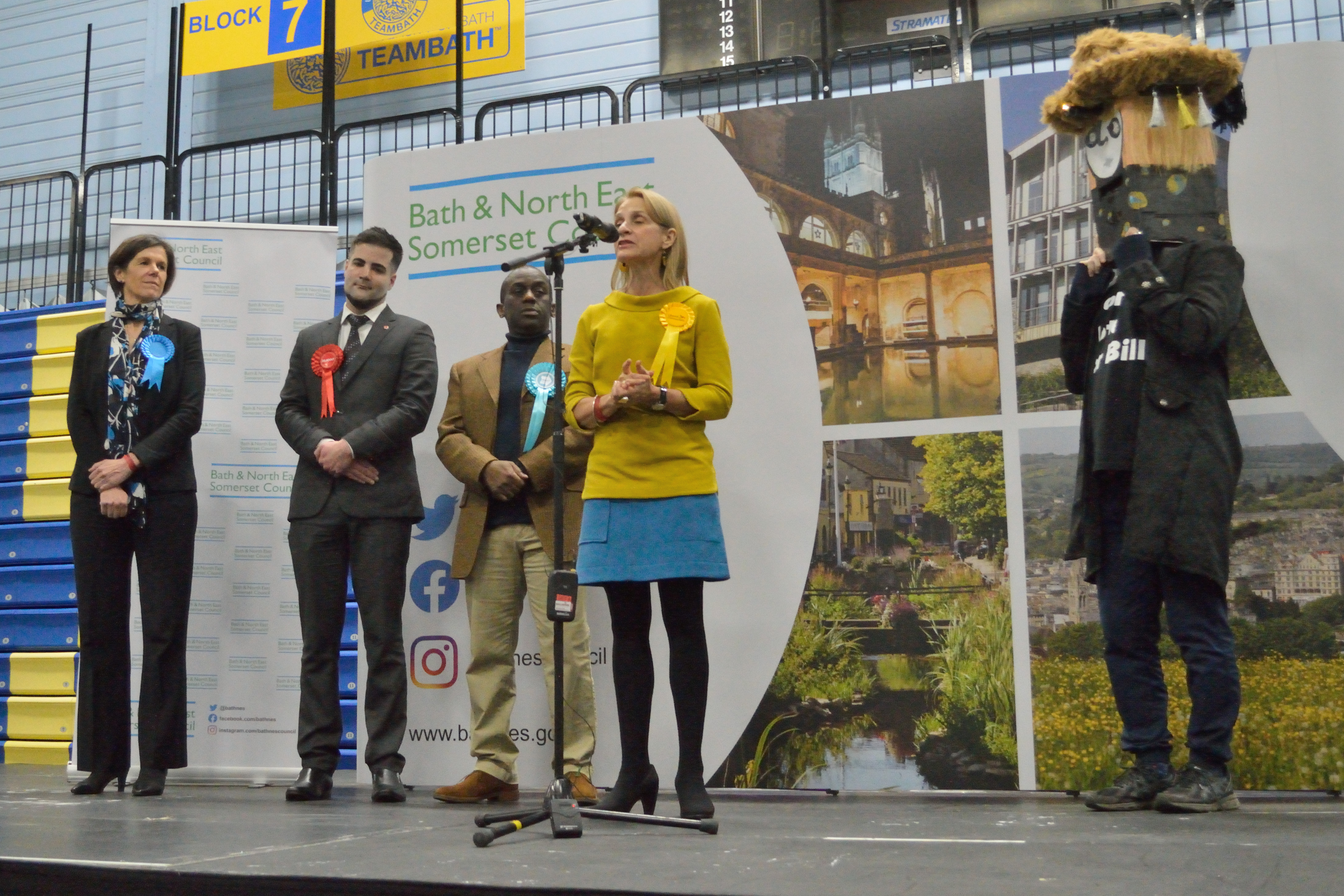 Wera Hobhouse giving her winner's speech at the 2019 United Kingdom general election, Bath constituency, declaration of results after the count held in the University of Bath Sports Training Village hall. The candidates left to right are: Annabel Tall (Conservative), Mike Davies (Labour), Jimi Ogunnusi (Brexit Party), Wera Hobhouse (Liberal Democrats), Bill Blockhead (Independent).